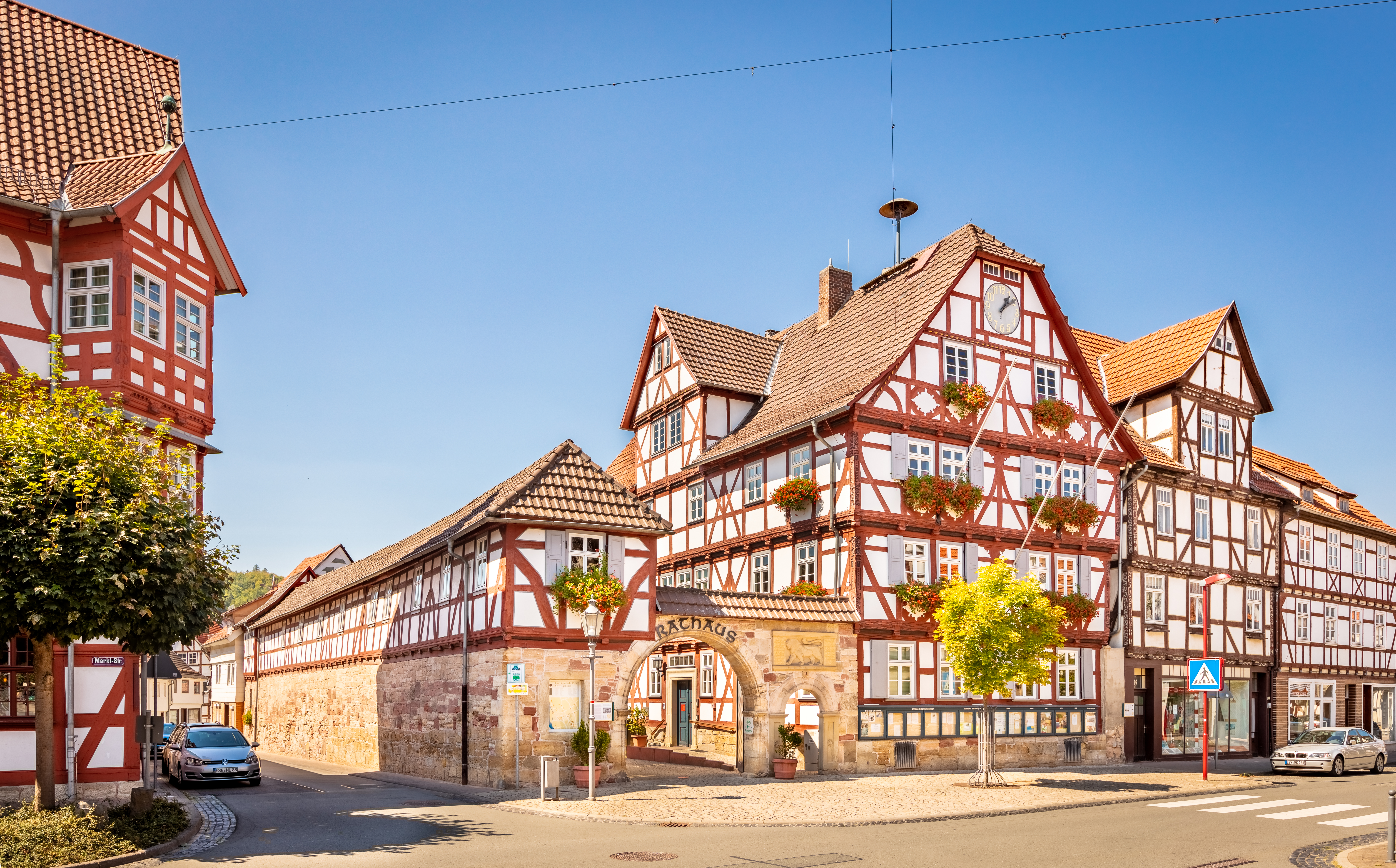 Wanfried town hall, Hesse, Germany.